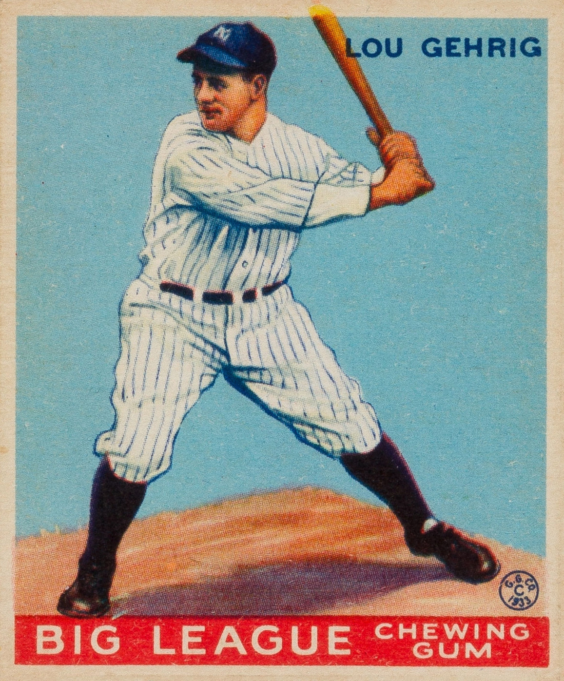 Baseball card of Lou Gehrig of the New York Yankees, #92.